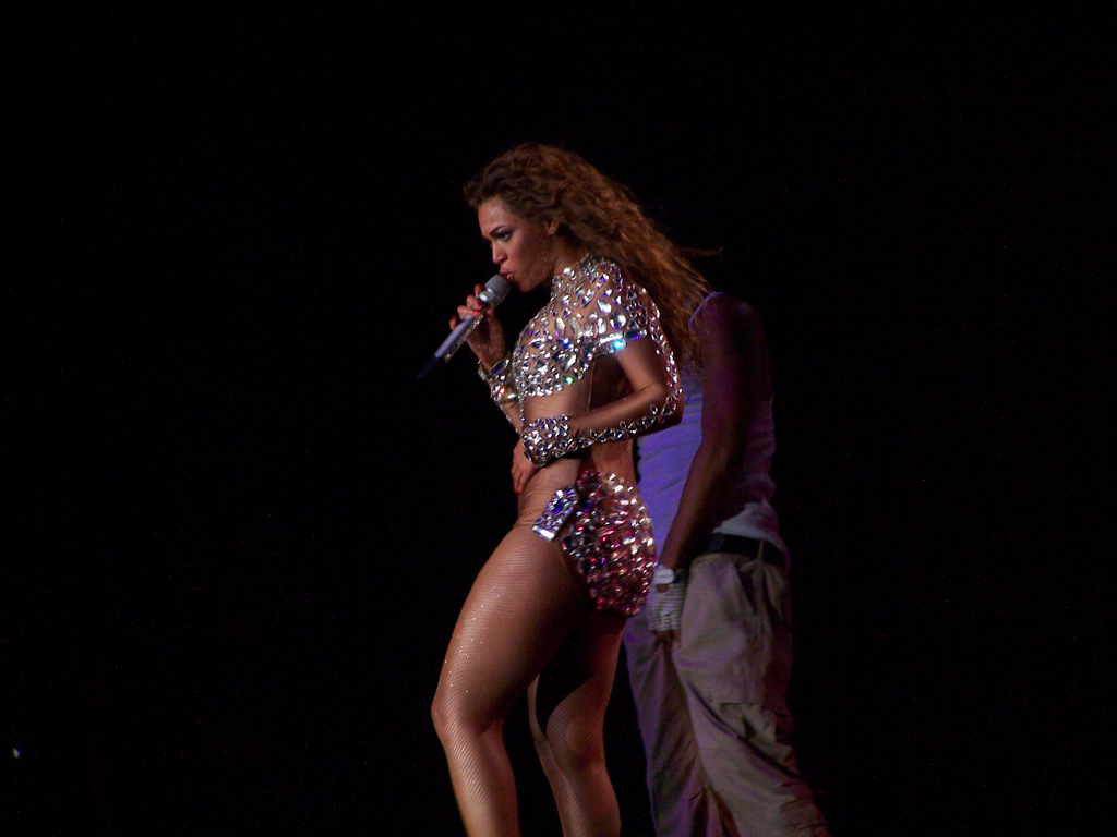 Beyoncé on a concert in Barcelona.